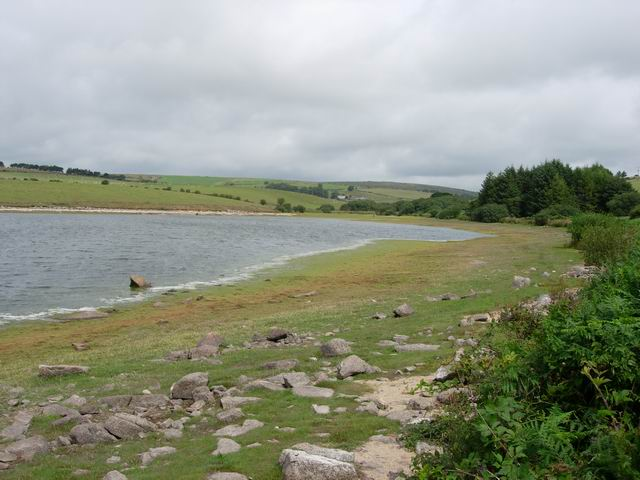 Top of Siblyback Lake. A reservoir used for watersports and fishing. Run by the South West Lakes Trust